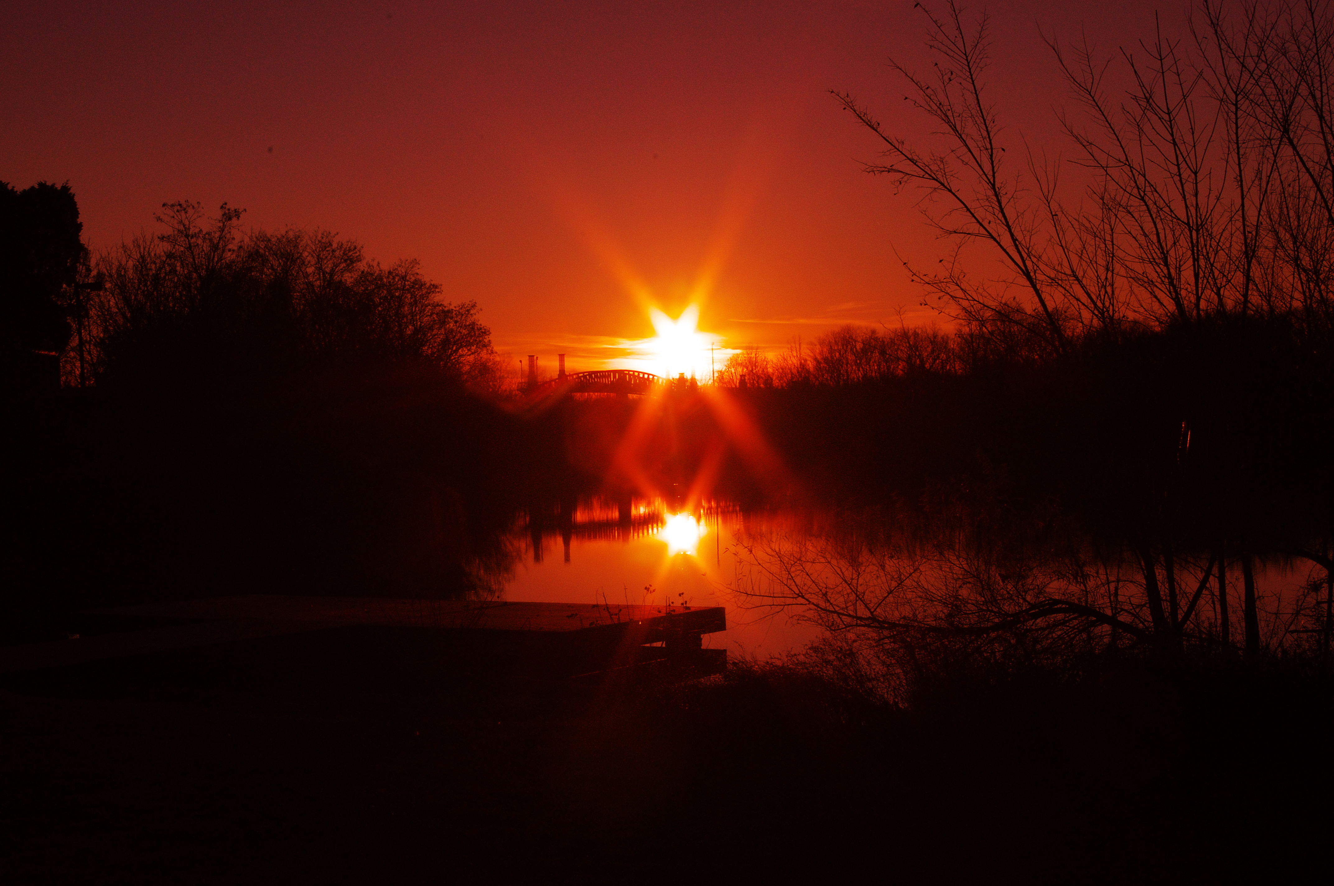 Sunset over a pond near the Blount Memorial Wellness Center, located along a side trail of the Maryville-Alcoa Greenway, in Alcoa, Tennessee, United States. The pedestrian bridge over Alcoa Highway is visible toward the center.